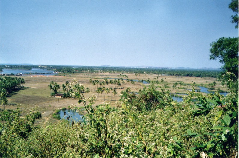 A landscape in Salcete (Goa), near Cavelossim, in behind the Sal River